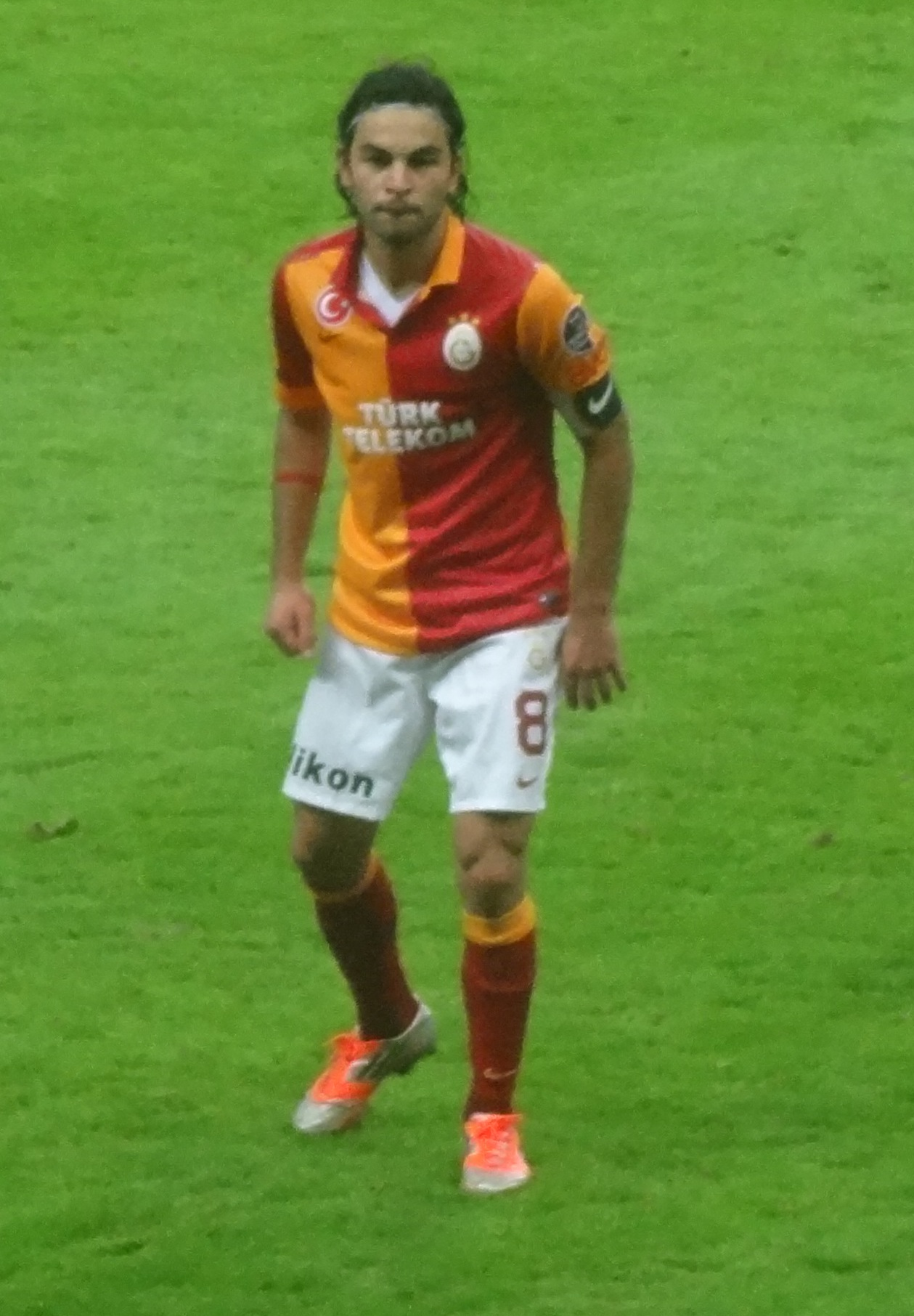 S8 vs Akhisar